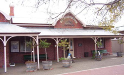 Photo of Dimboola Library